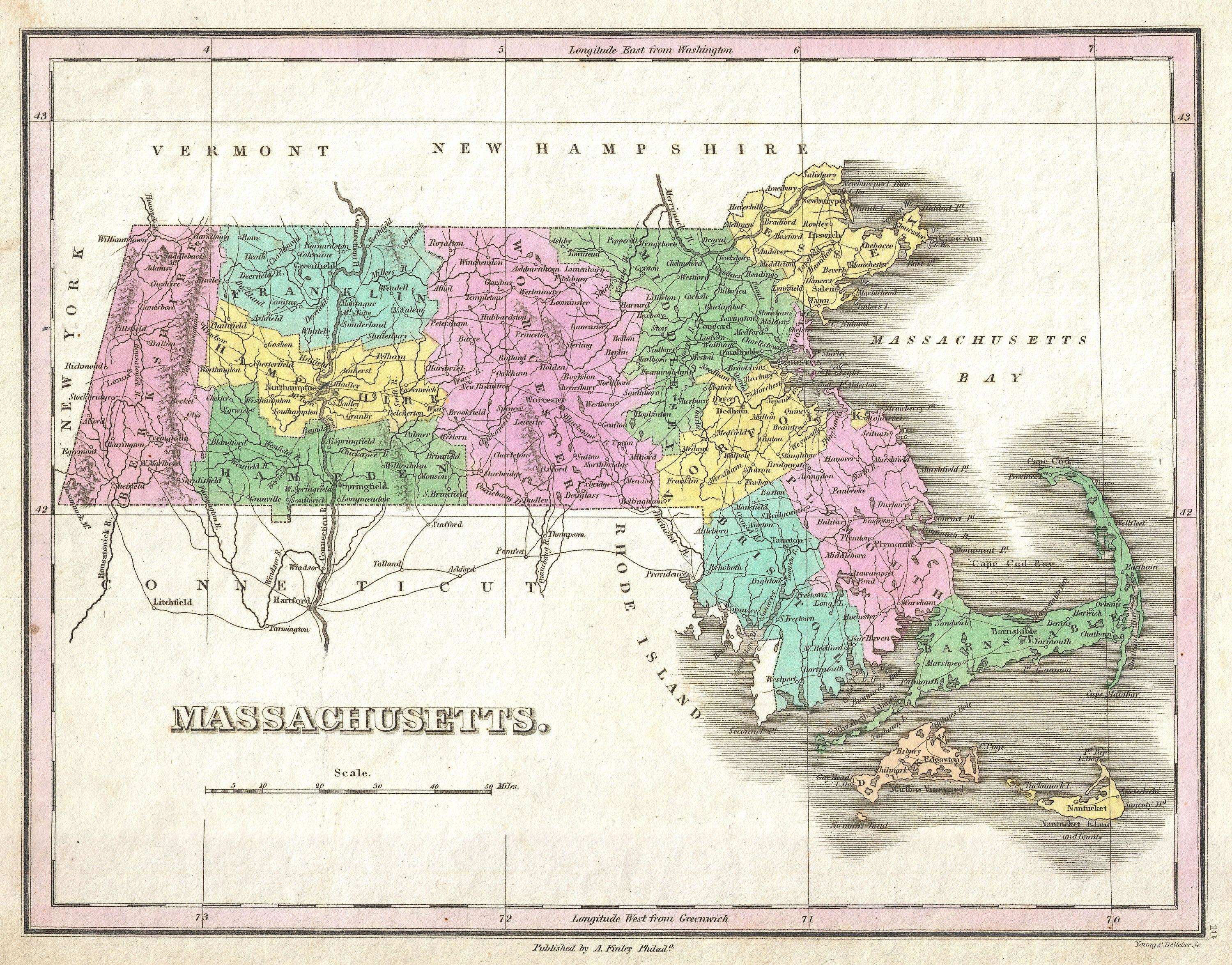 A beautiful example of Finley's important 1827 map of Massachusetts. Includes Nantucket and Marthas Vineyard. Depicts the state with moderate detail in Finley's classic minimalist style. Shows river ways, roads, canals, and some topographical features. Offers color coding at the county level. Title and scale in lower left quadrant. Engraved by Young and Delleker for the 1827 edition of Anthony Finley's General Atlas .